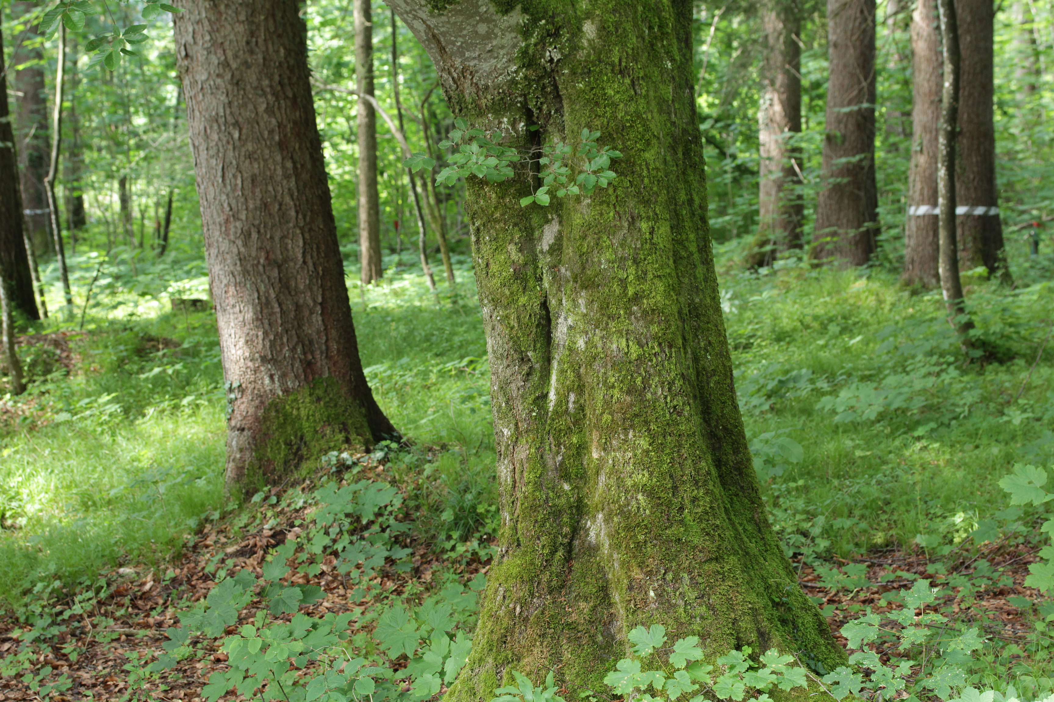 Radula lindenbergiana